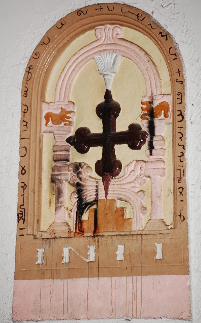 Persian Cross, Kadamatam church